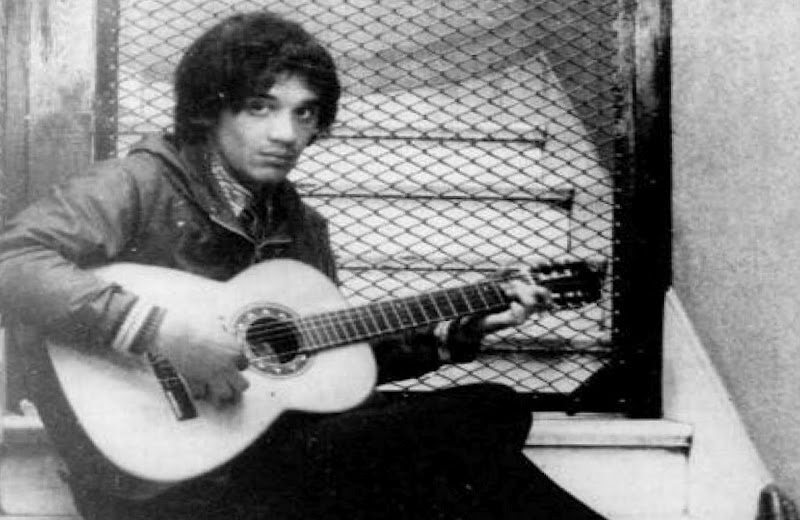 Argentine musician José Alberto Iglesias, "Tanguito" with his guitar.